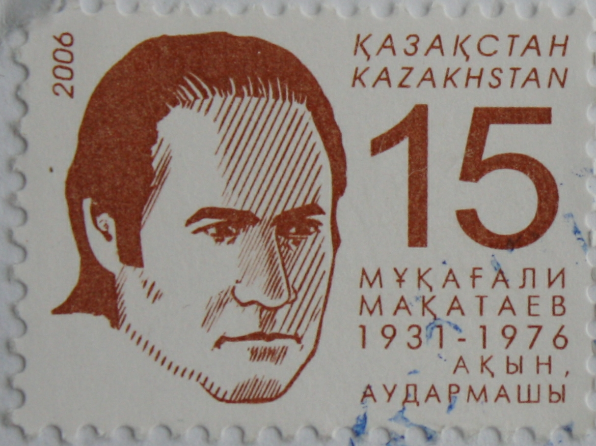 Kazakhstan pastage stamp - a portrait of Mukagali Makataev